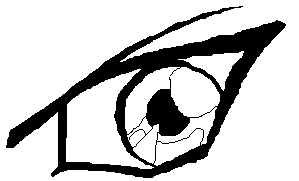 Yusei Fudo's eye. Inspired on the work of Kazuki Takahashi.